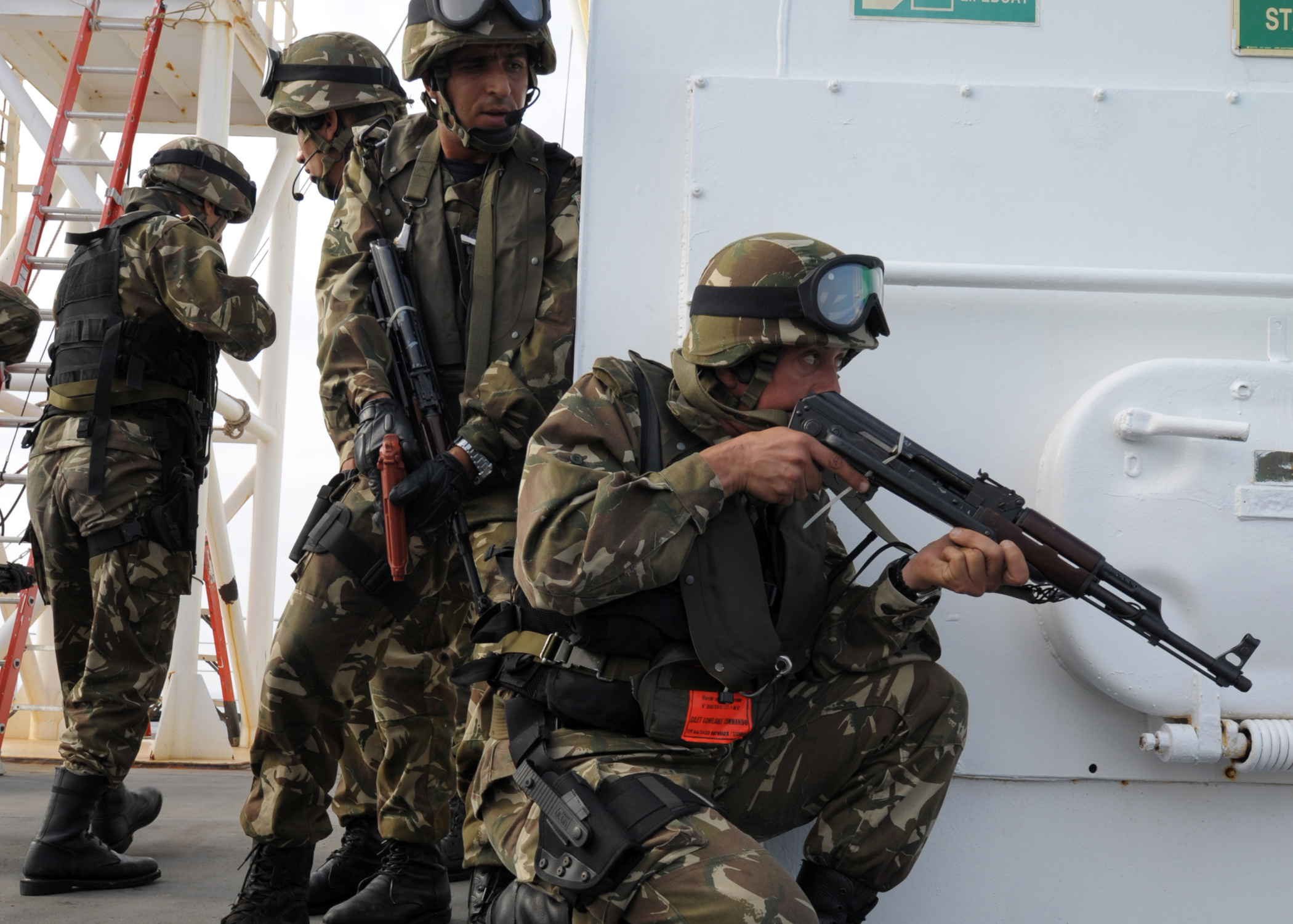 A boarding team from Algerian navy ship Mourad Rais (F 901) conducts an exercise aboard the prepositioning ship USNS Lance Cpl. Roy M. Wheat (T-AK 3016) during Phoenix Express 2012 in the Mediterranean Sea May 26, 2012. Phoenix Express is an at-sea exercise designed to strengthen maritime partnerships and enhance stability through increased interoperability and cooperation among partners from Africa, Europe and North America.